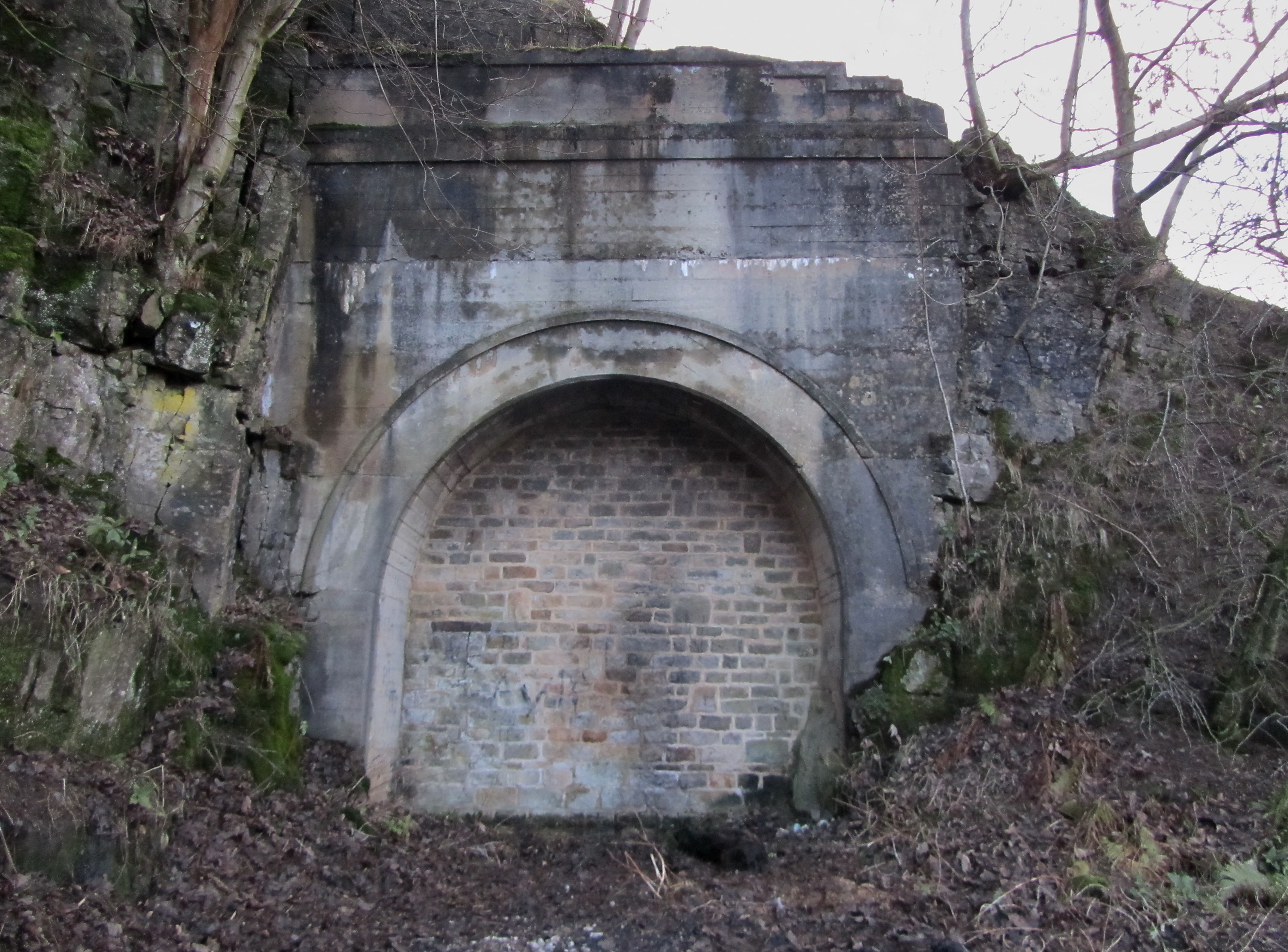 Disused Railway Tunnel by the Scar House Road